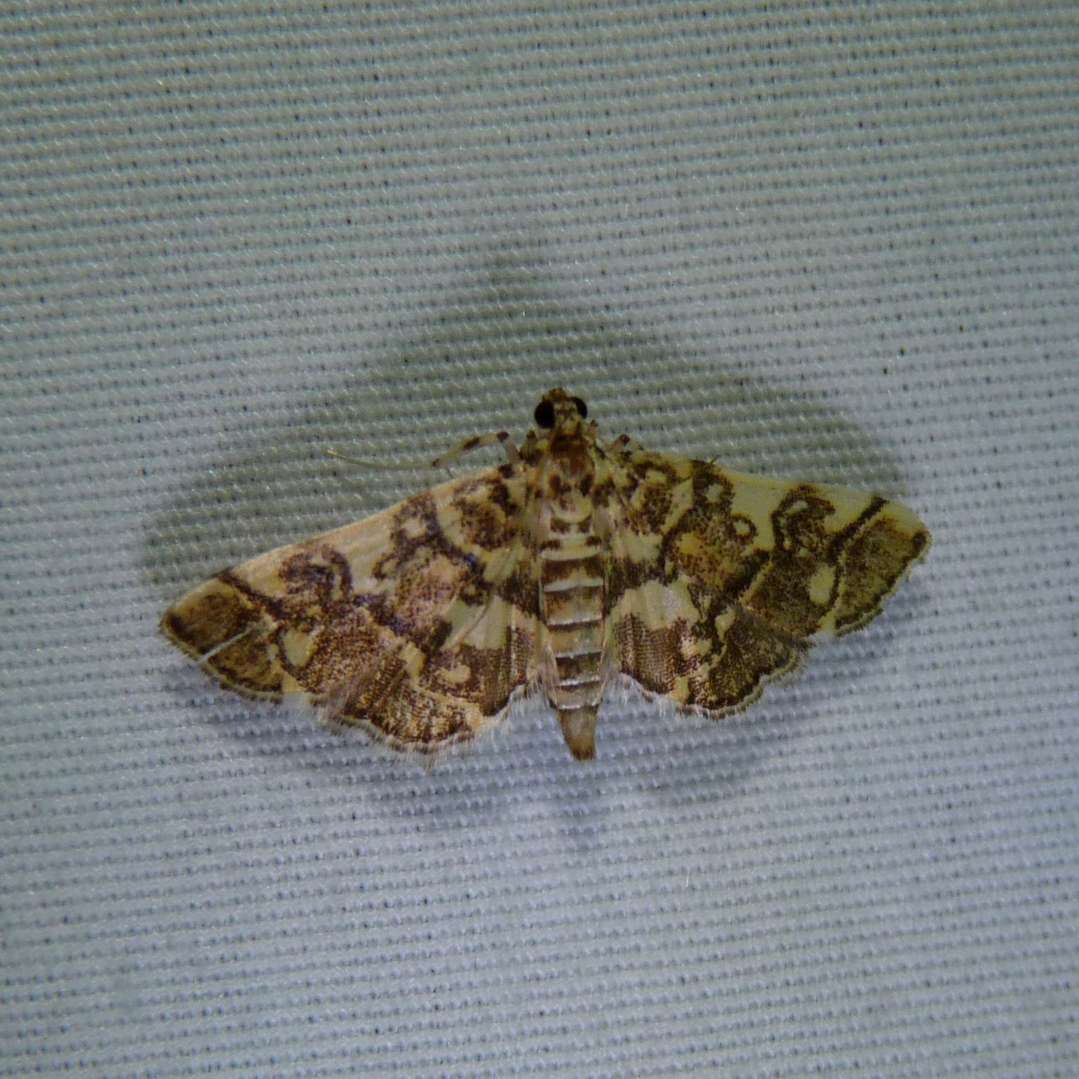 Checkered Apogeshna (Apogeshna stenialis) – Hodges#5177 BugGuide / MPG